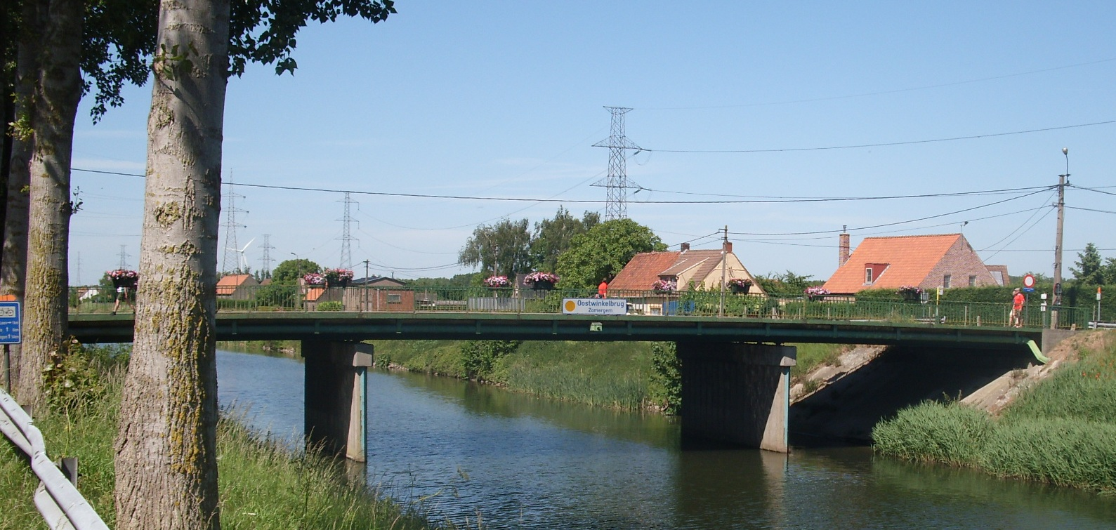 Oostwinkelbrug over het Schipdonkkanaal - Langestraat - Oostwinkel - Zomergem - Oost-Vlaanderen - Vlaams Gewest - België